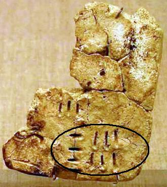 Linear A numeral 36 on tablet from the bronze age found in Akrotiri, on the island of Santorini, Greece, at display in the new archaeological museum of the City Thera on Santorini, Greece. Picture filtered by User:Securiger, taken by User:Portum.